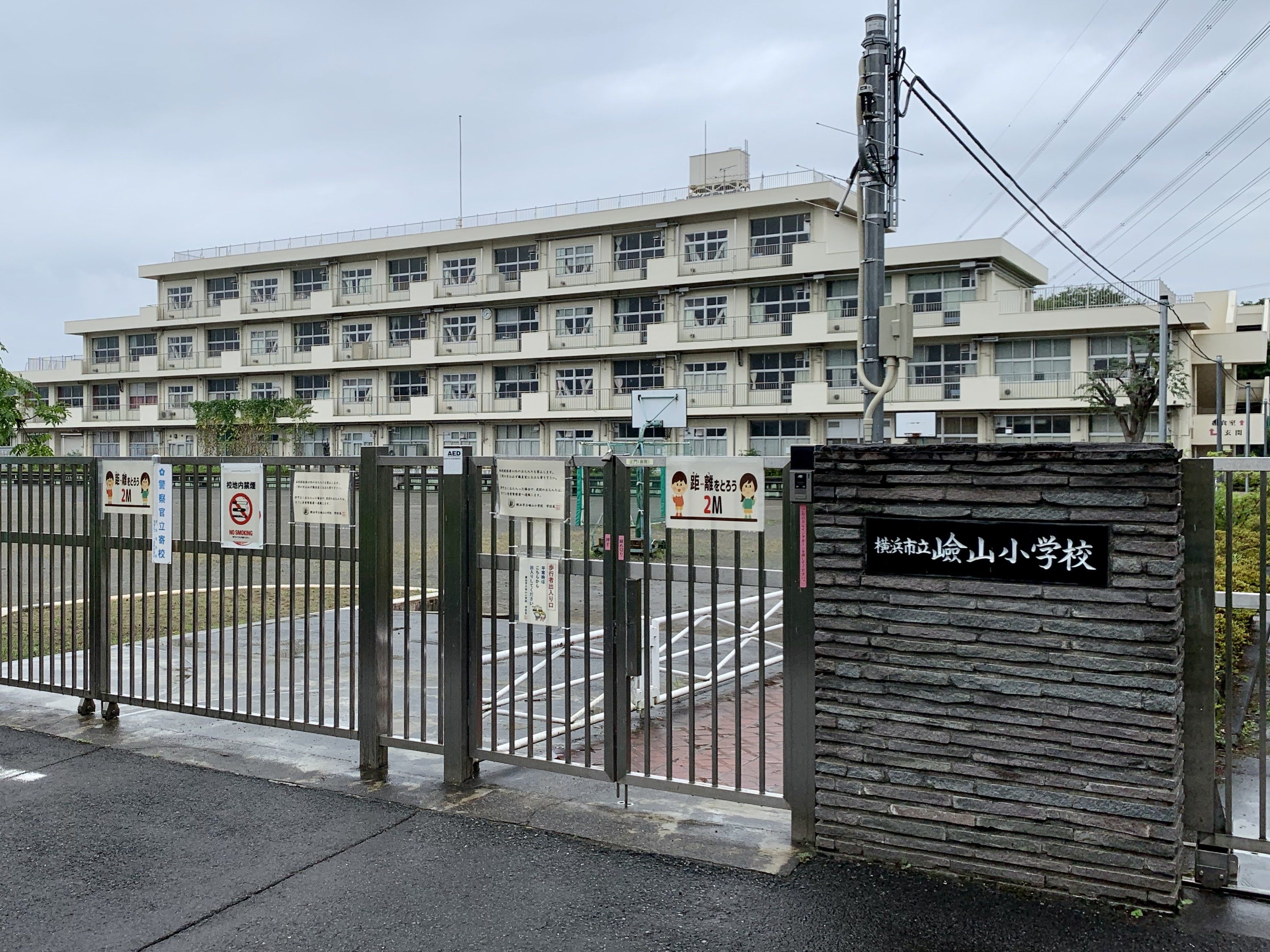 Kenzan Elementary School